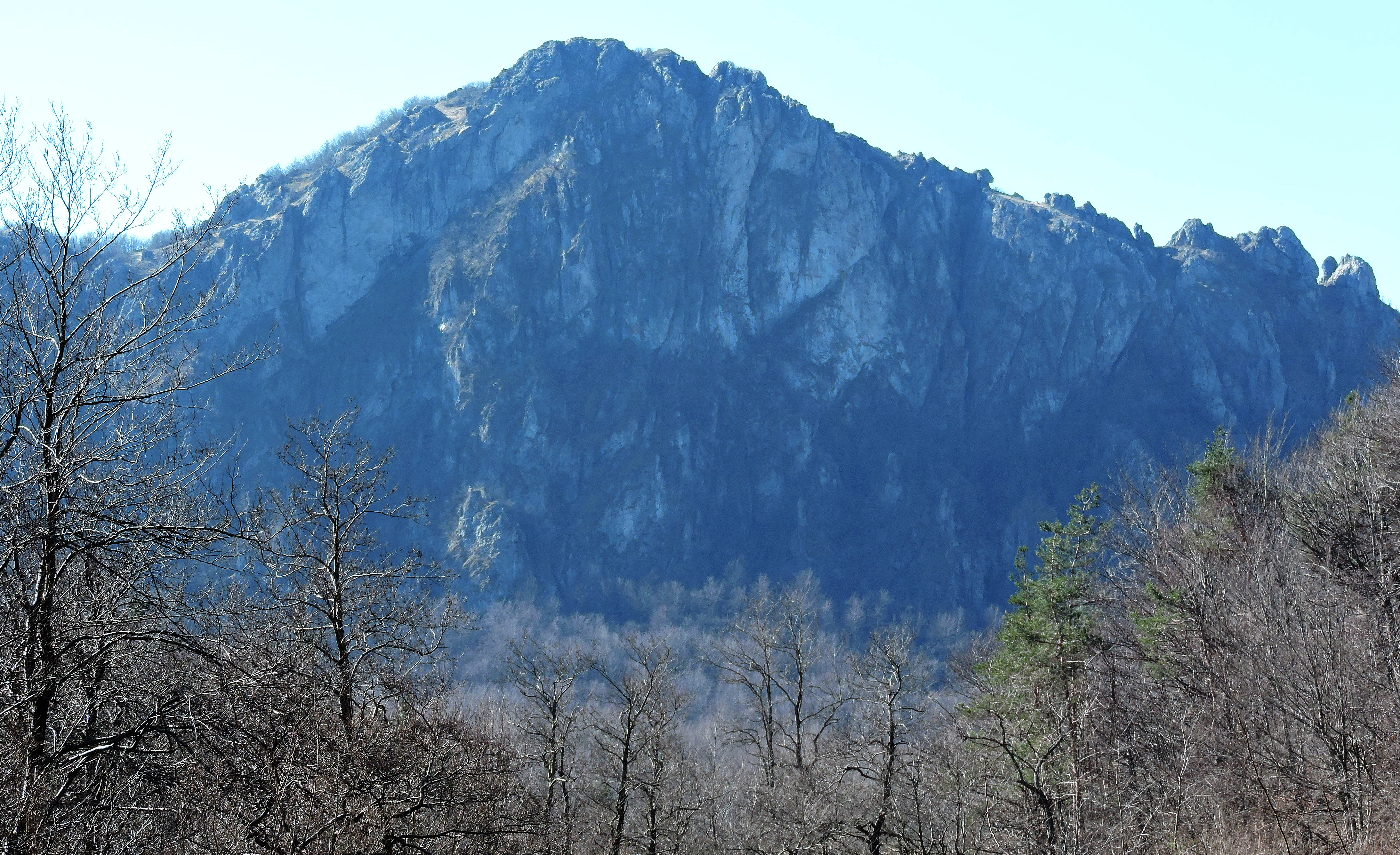 Rocca Barbena (Ligurian Prealps, SV, Itay): North face